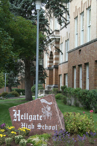 Self Published